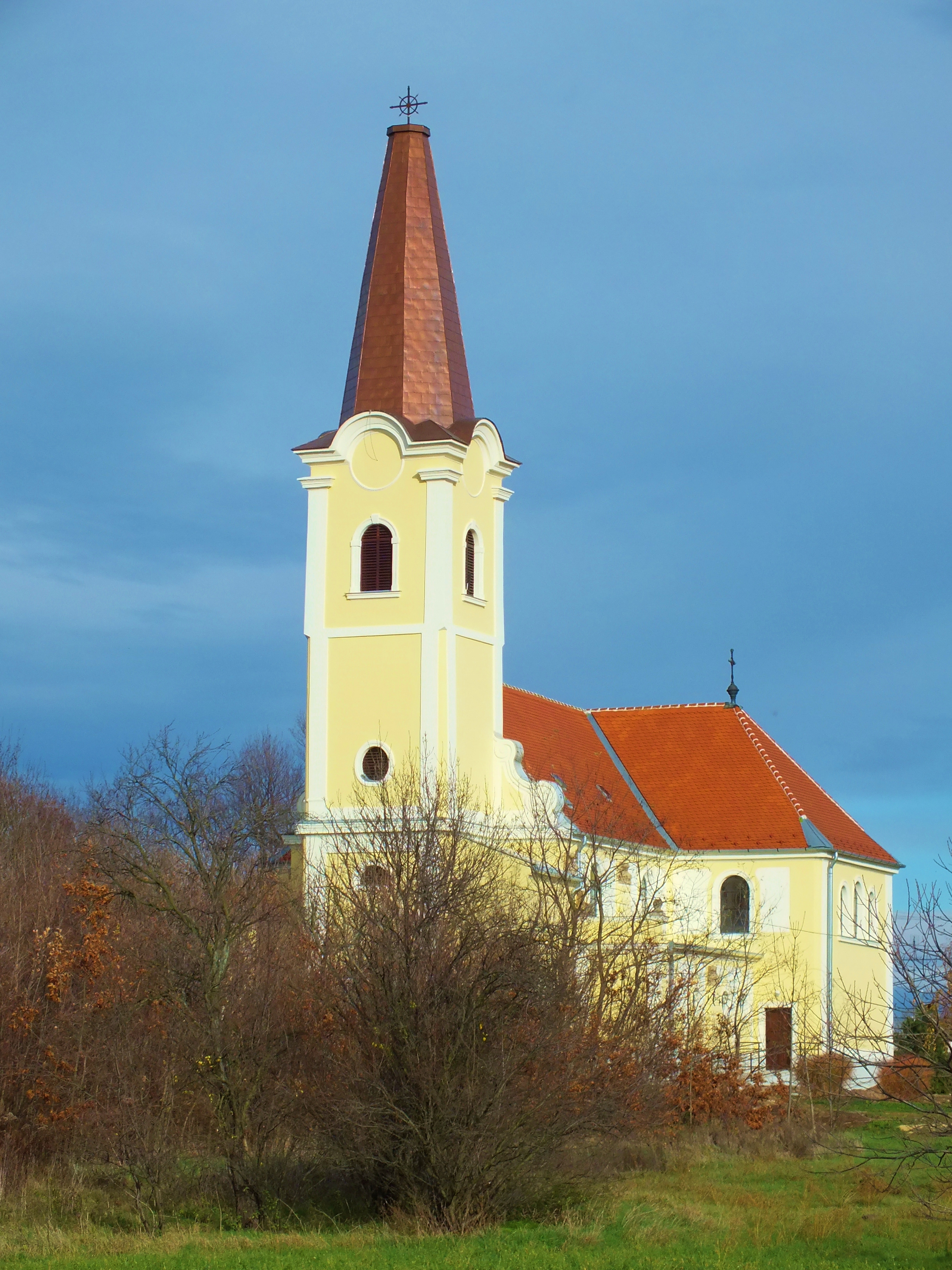 Catholic church in Egyed, Hungary, 2012 Église catholique à Egyed, en Hongrie, 2012 Katolikus templom Egyeden, 2012